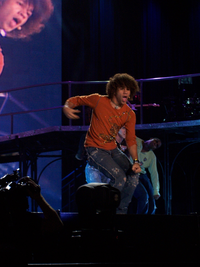 Push It to the Limit